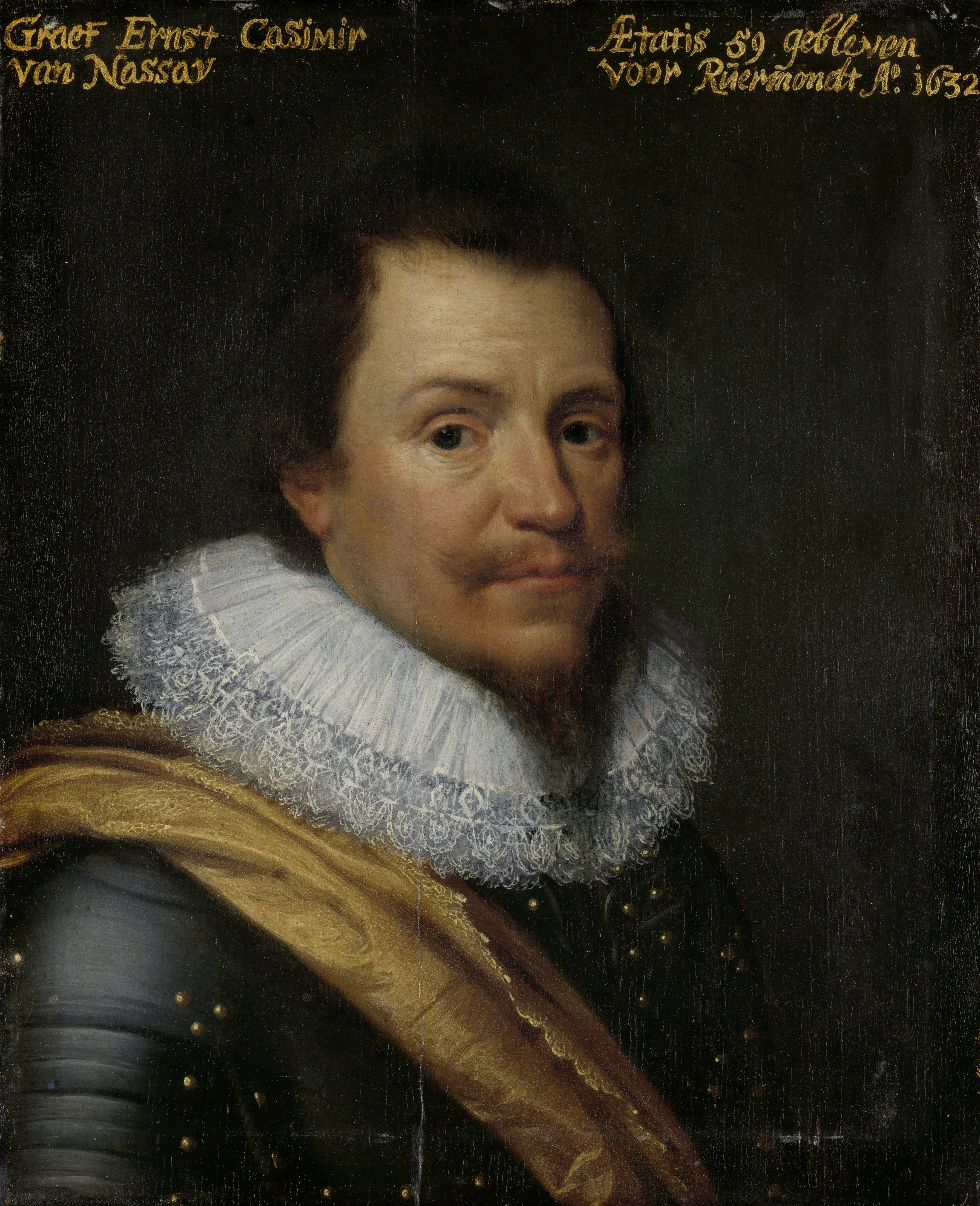 Portrait of Ernst Casimir (1573–1632), Count of Nassau-Dietz, Stadtholder of Friesland. Bust, facing right, in armor. Part of the Leeuwarden series, a series of portraits of military officials from the Eighty Years' War as well as members of the House of Orange-Nassau, first documented in 1633 in the Stadhouderlijk Hof (Stadholder's Court) in Leeuwarden (see Object history).